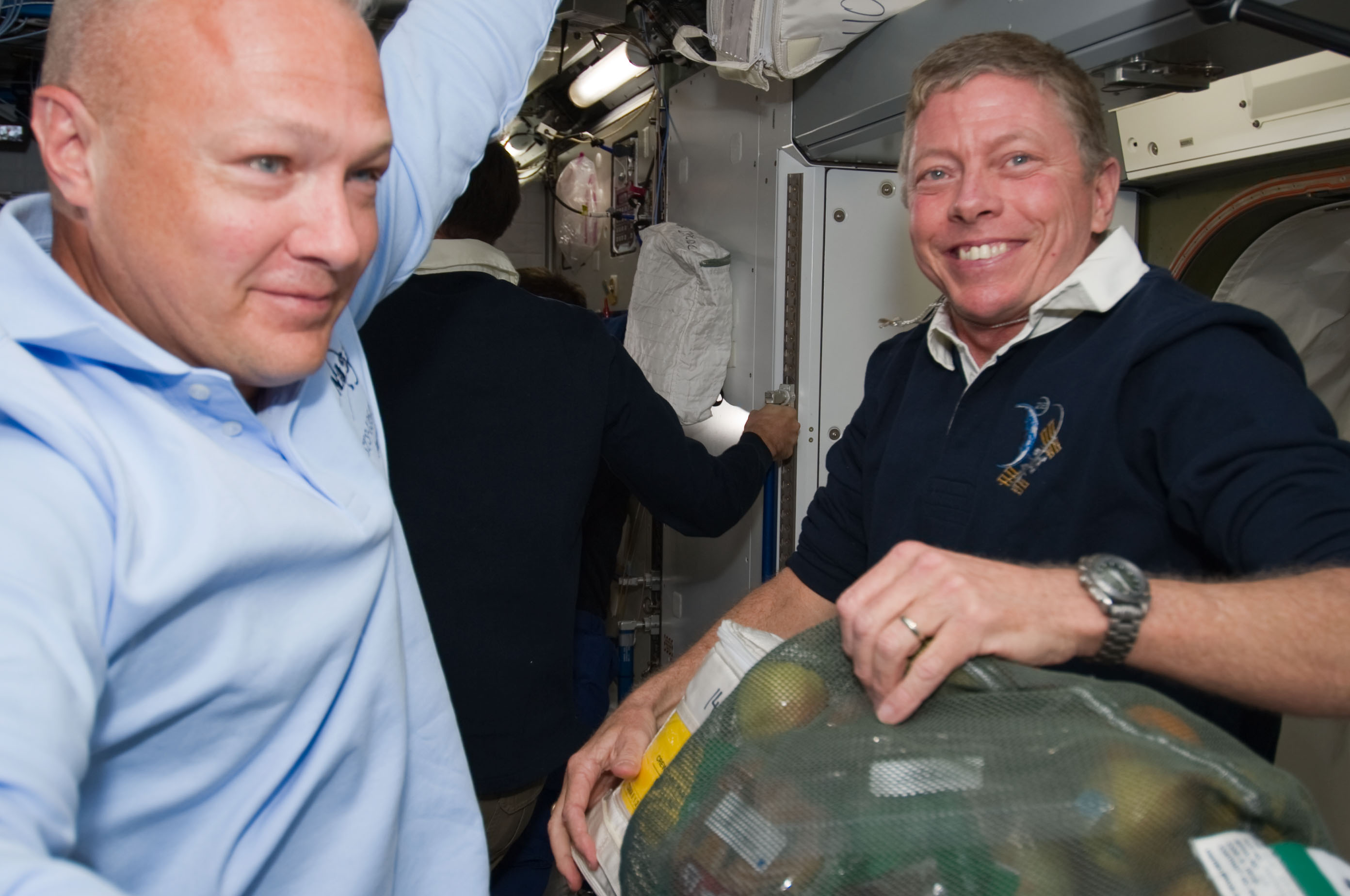 NASA astronauts Doug Hurley (left), STS-135 pilot, and Mike Fossum, Expedition 28 flight engineer, are pictured onboard the International Space Station not long after the docking of the space shuttle Atlantis and the station during the mission's third day in space. Fossum displays a smile as he holds a bag of fruit and other items which was brought up by the shuttle crew.